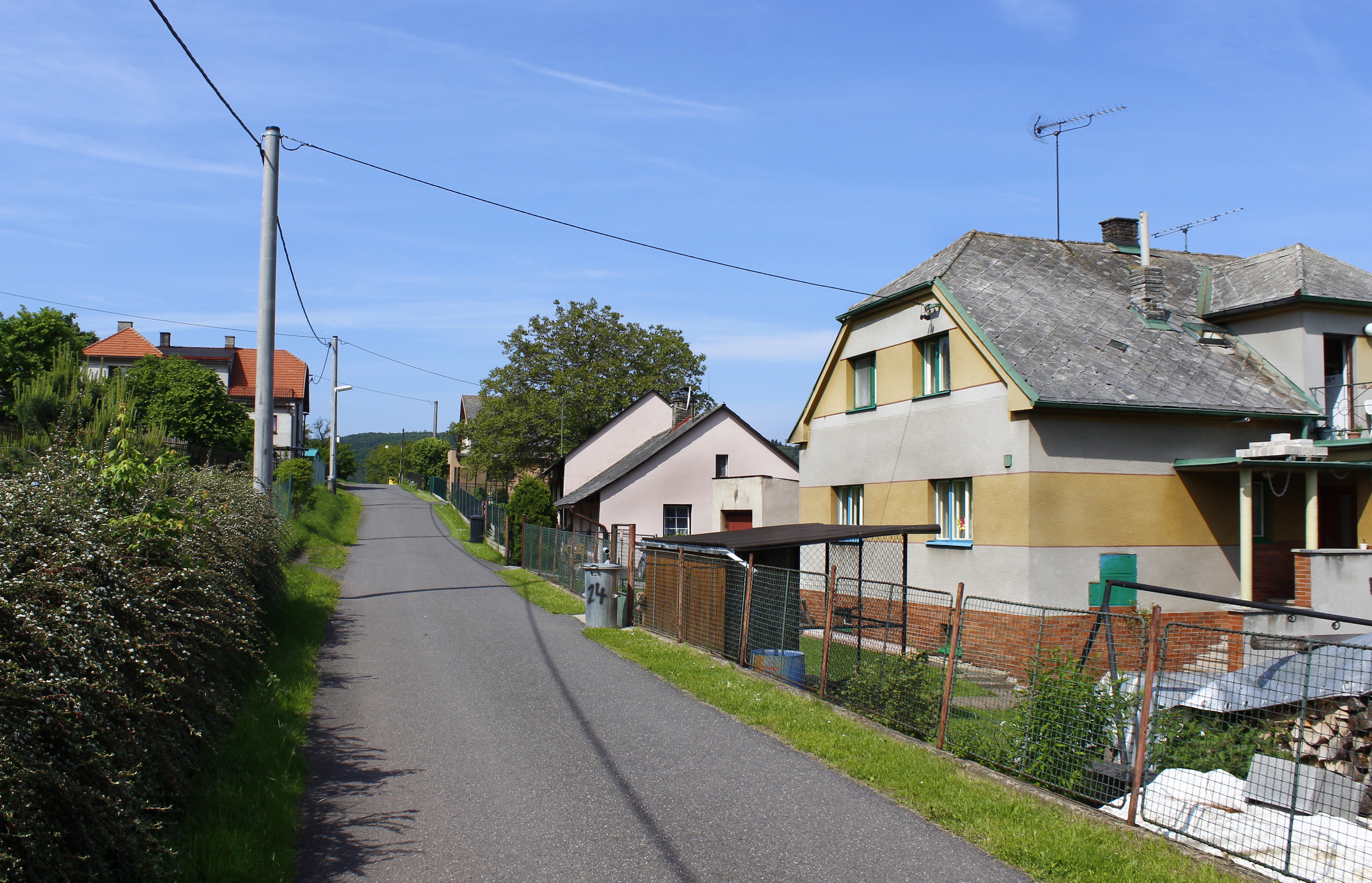 East part of Kleštěnice, part of Komárov, Czech Republic